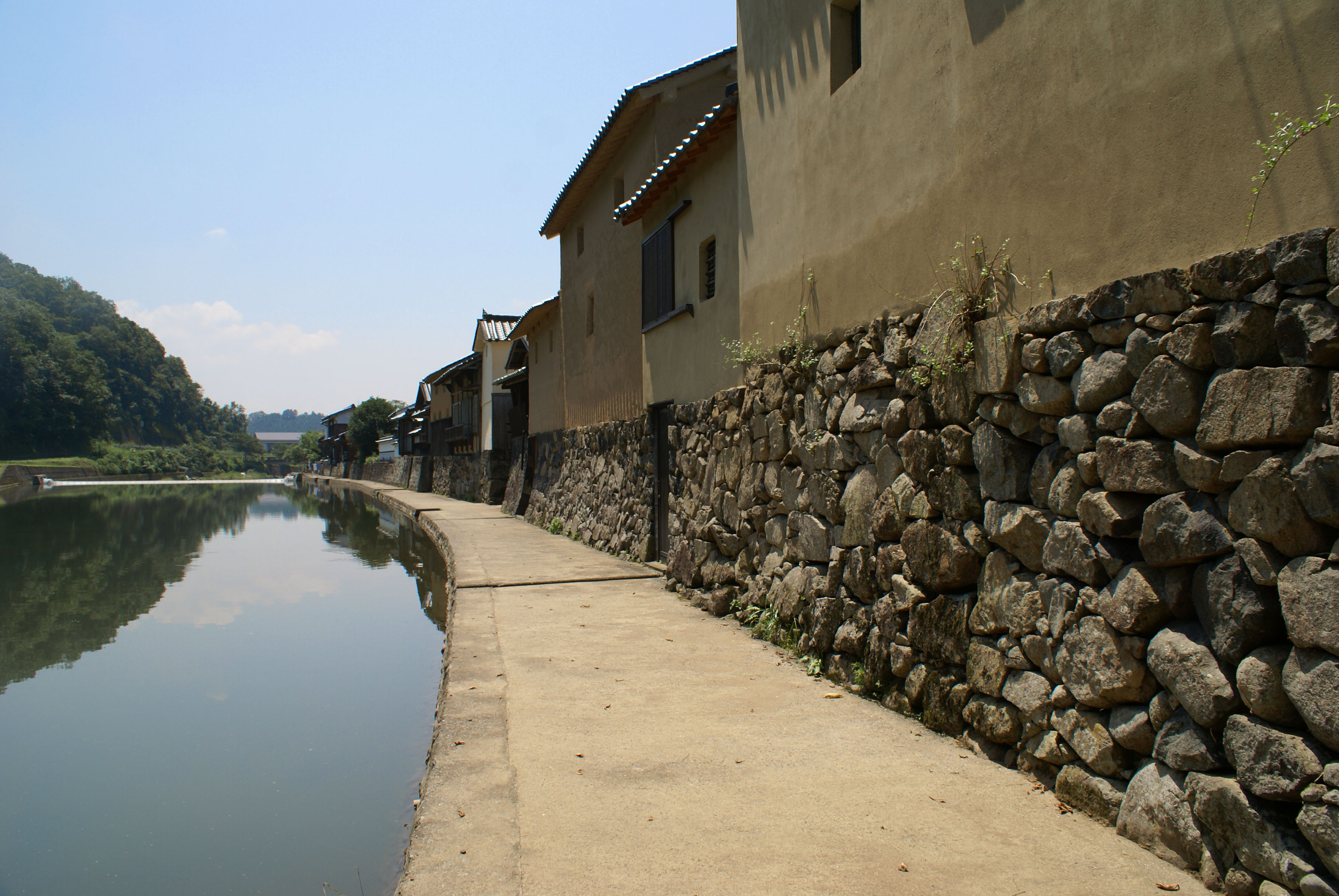 Scenery of the ridge of Sayo river in Hirafuku, Sayo, Hyogo, Japan